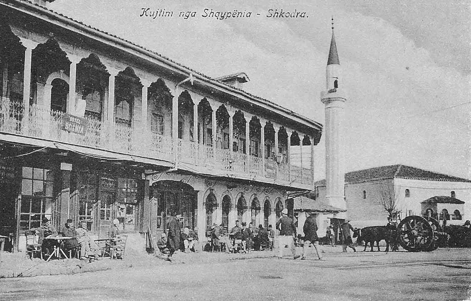 Old view of guest house and mosque in Shkodra, Albania